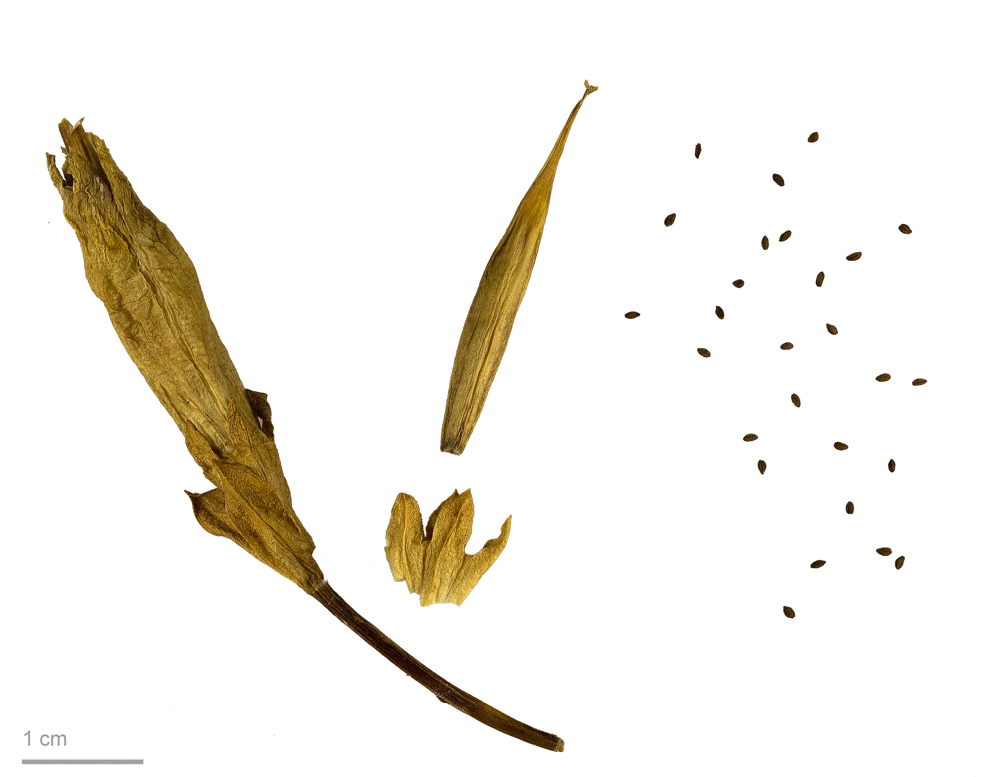 Gentiana alpina , fruits and seeds